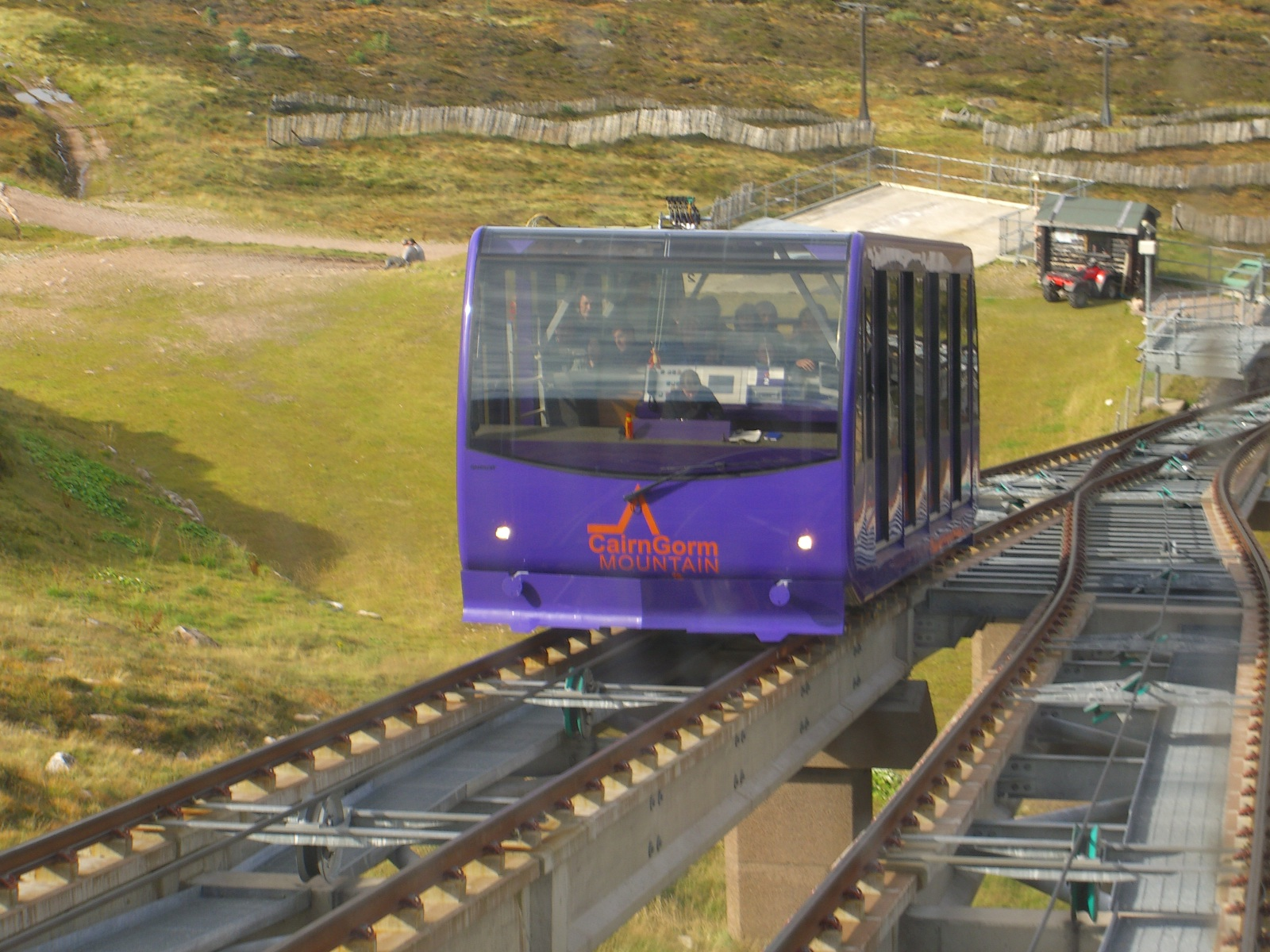 I created this file myself.